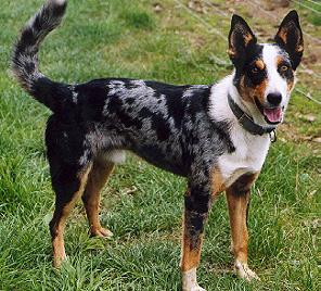 Pete, a short coat tri-merled Koolie Silhouette Pete, owned and photographed by R&A Worboys Australia